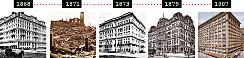 Historic perspective of the State and Washington corner